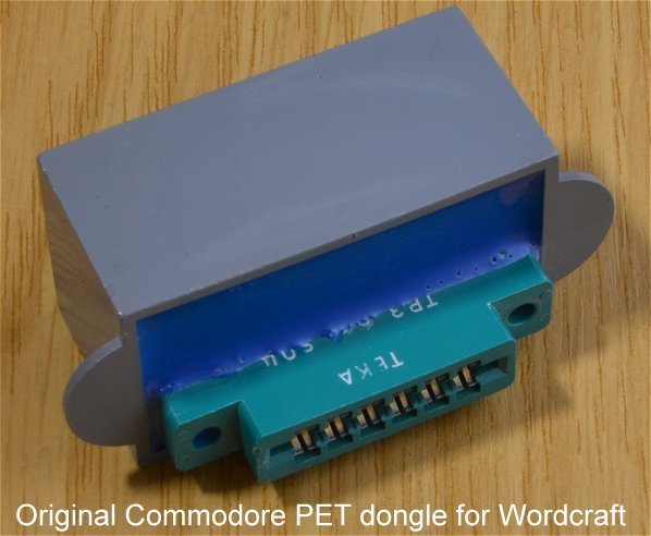 This is the original dongle used on the cassette port of a Commodore PET computer to protect the Wordcraft word processor.